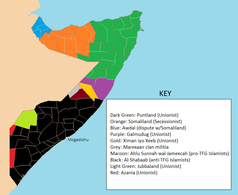 Current situation of Somalia